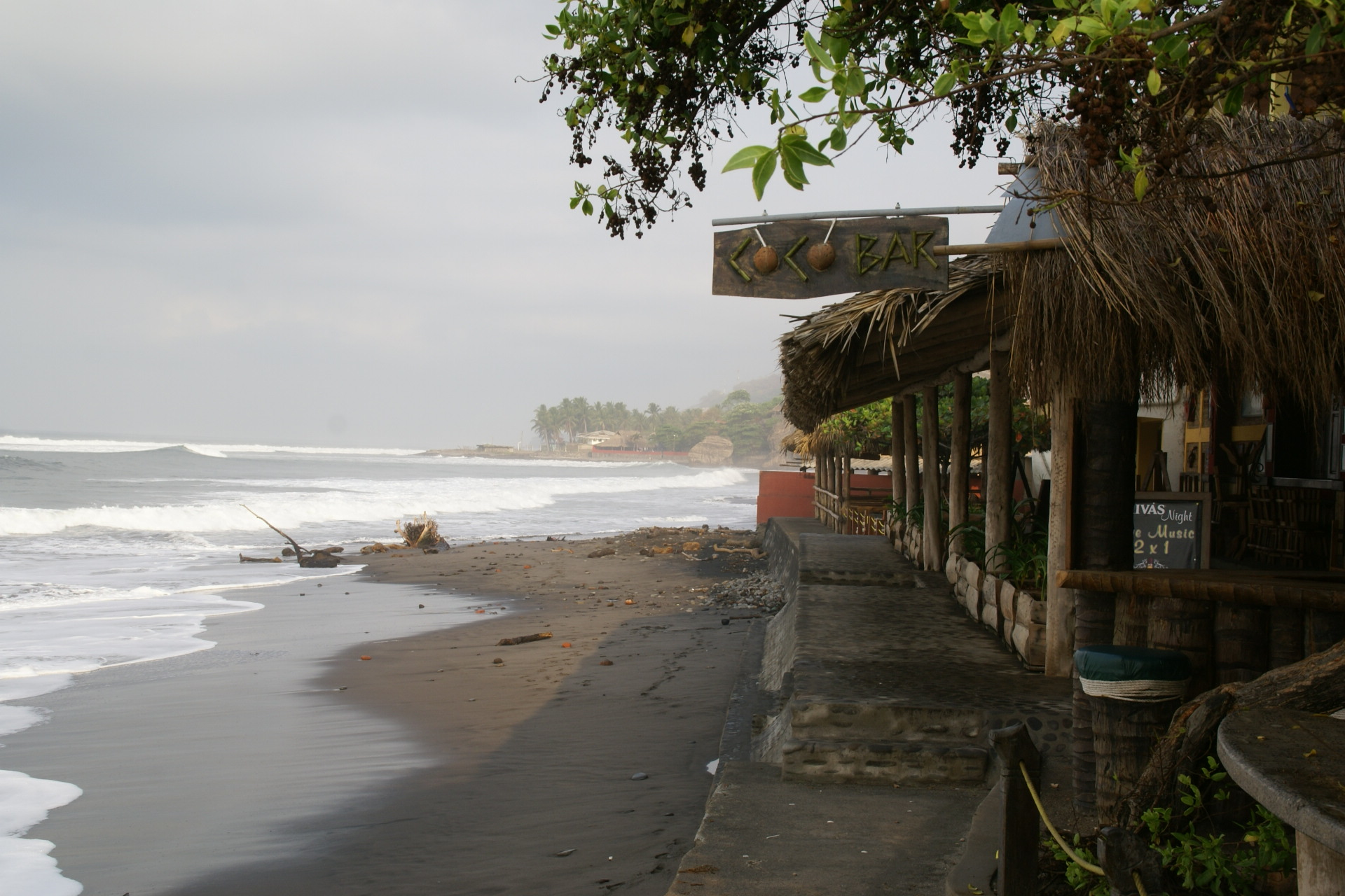 Beach at El Sunzal near La Libertad in El Salvador